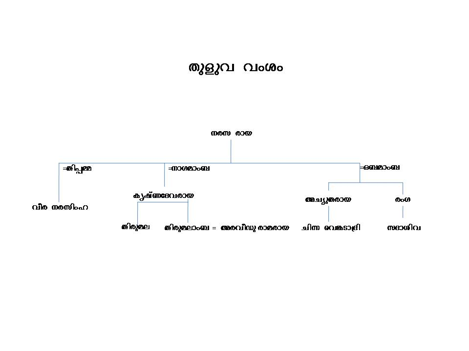 Family Tree of Tuluva dynasty of Vijayanagara Empire